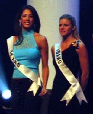 Stephanie Guerrero, 2004 and Kimberly Glyn Weible, 2004 during rehearsals for the Miss USA 2004 pageant. Both placed in the top ten of the nationally televised pageant.